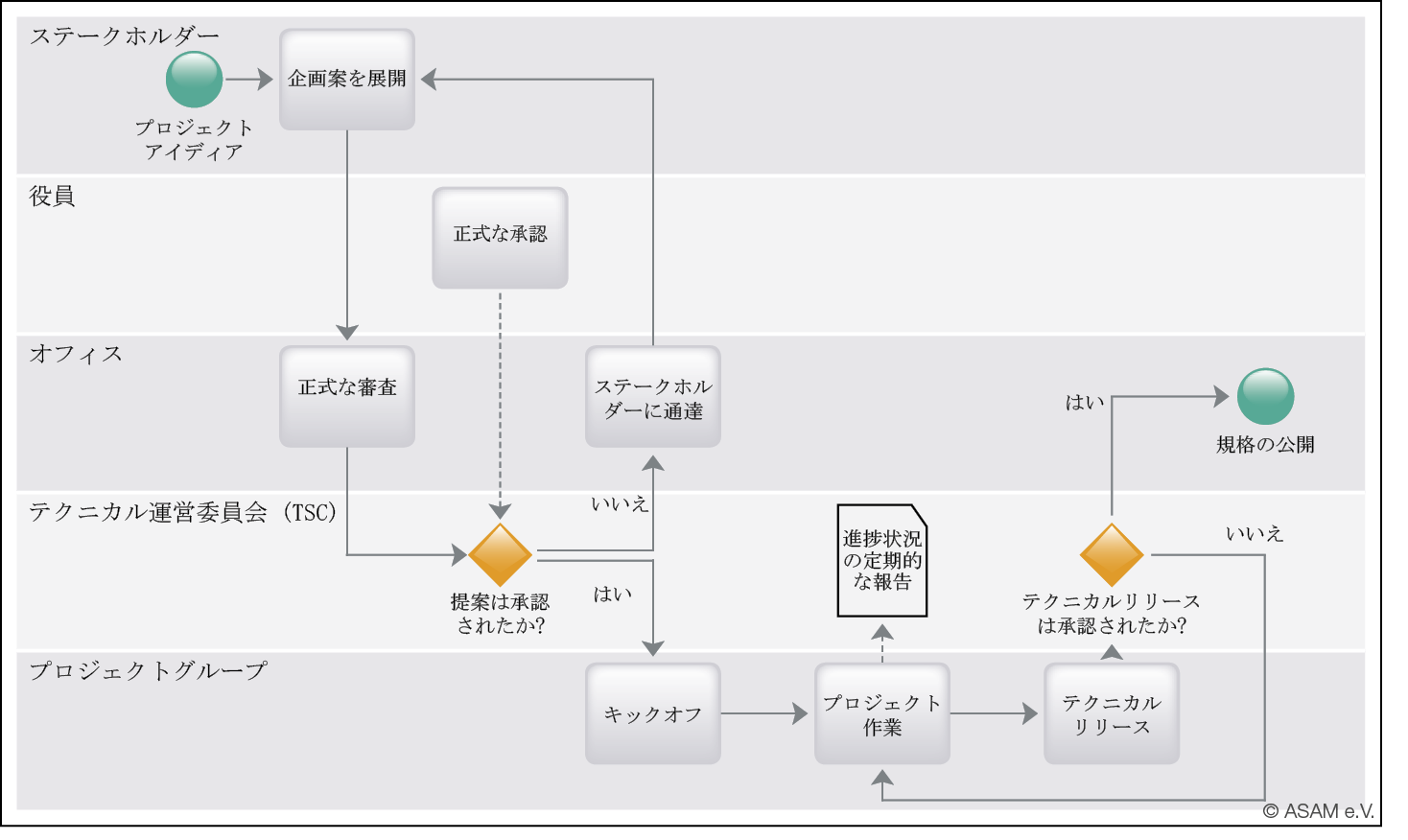 Life Cylce of an ASAM Standard